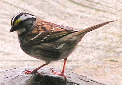 White-throated Sparrow